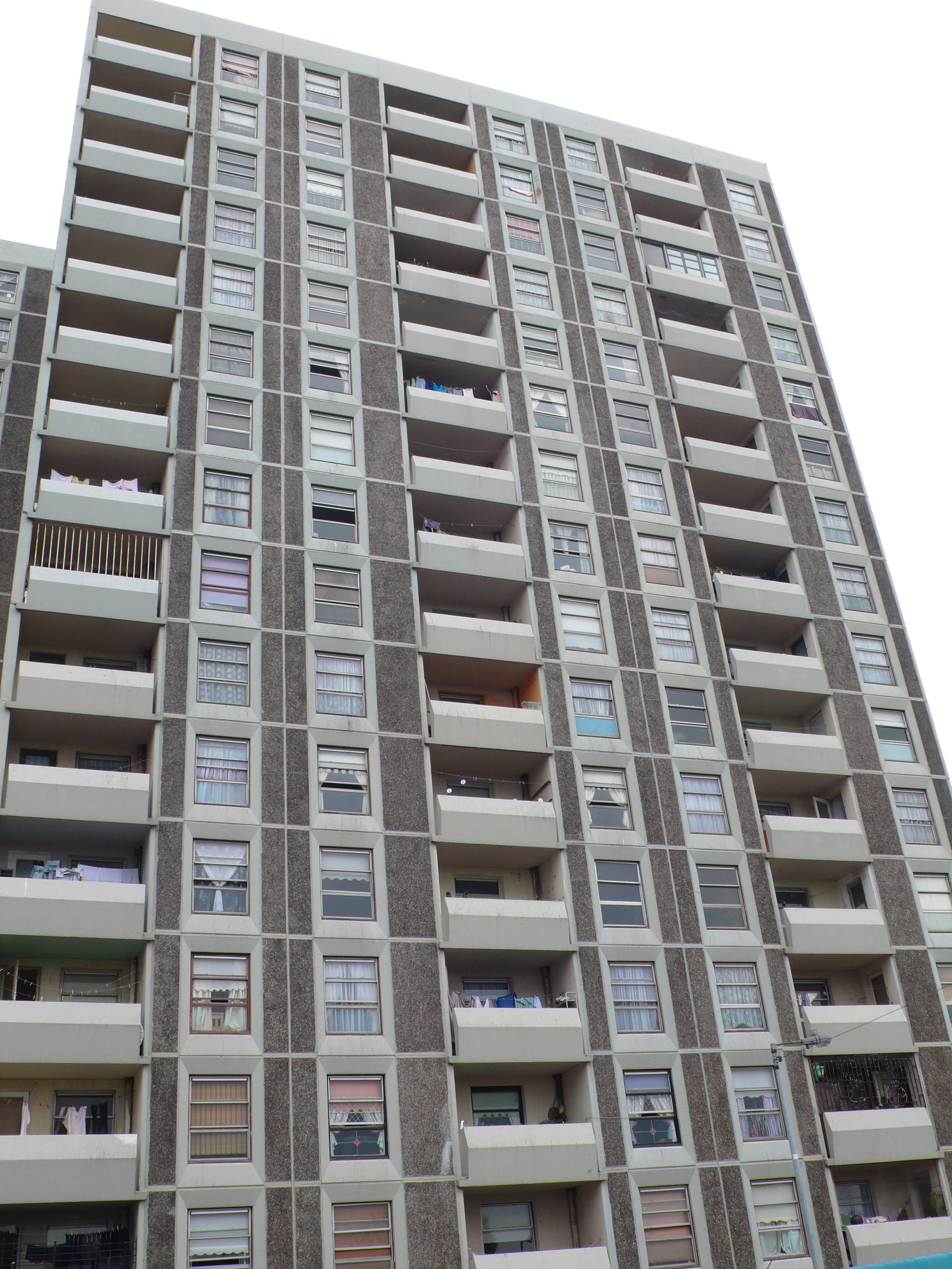 Joseph plunkett tower, the last remaining original tower in ballymun.